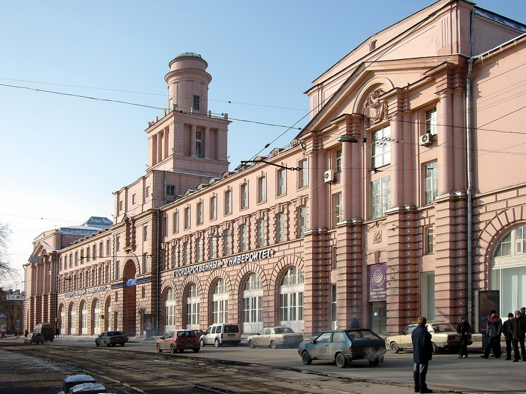 SPbSU ITMO main building